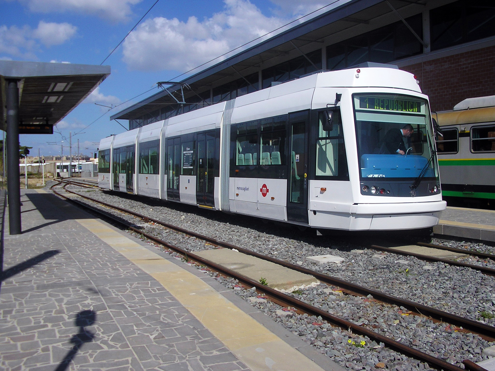 A Skoda 06T tram of the Cagliari light rail system (in Sardinia, Italy) laying over at Monserrato Gottardo station, the original terminus of the light rail line and of the railway line to Isili, during the first month of light rail service.